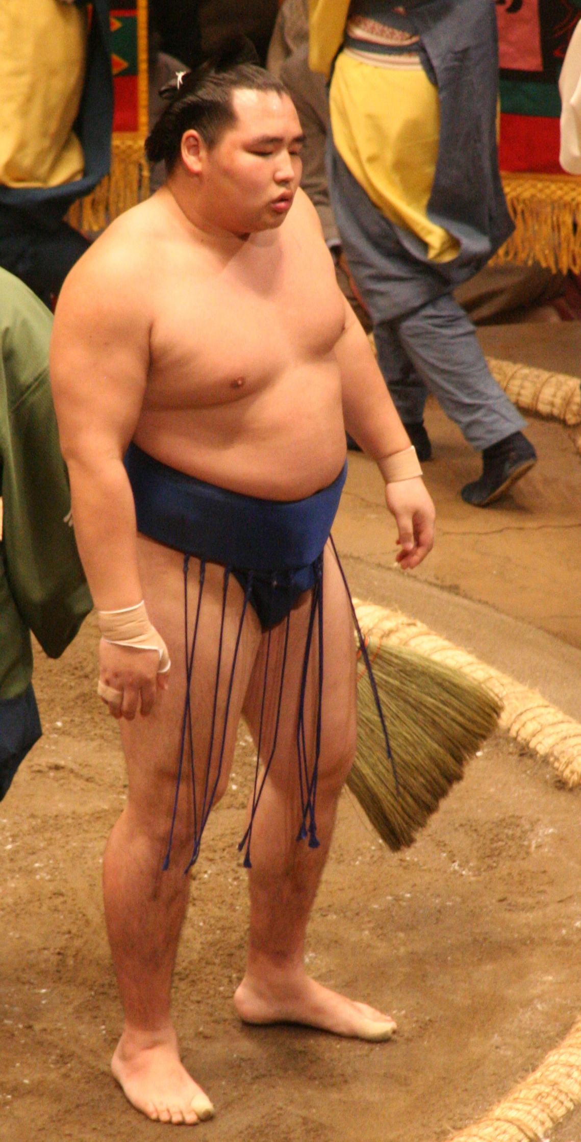 First day of 2009 May Sumo Tournament in Tokyo, Japan - Kakuryu